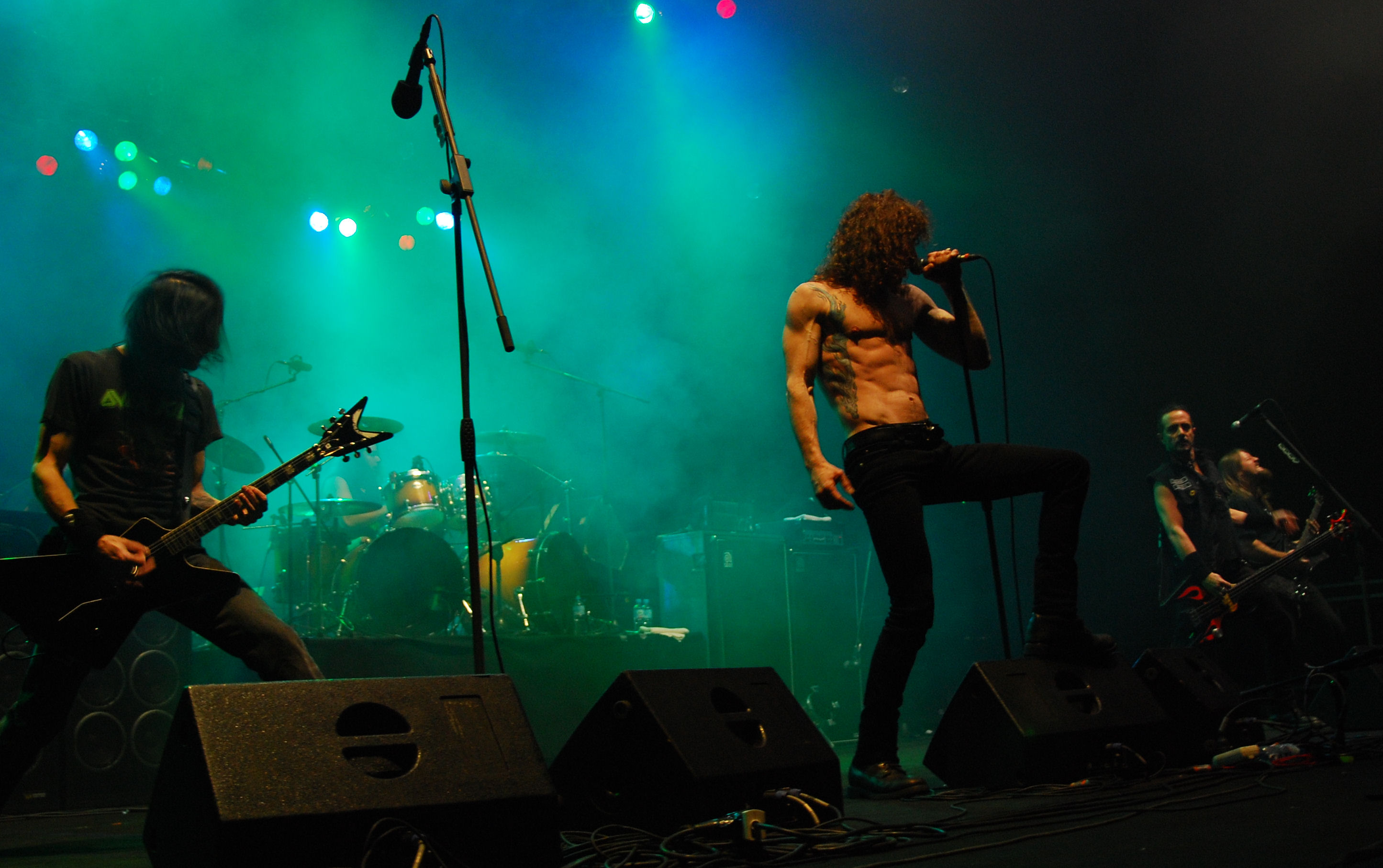 Overkill during Metalmania 2008 festival